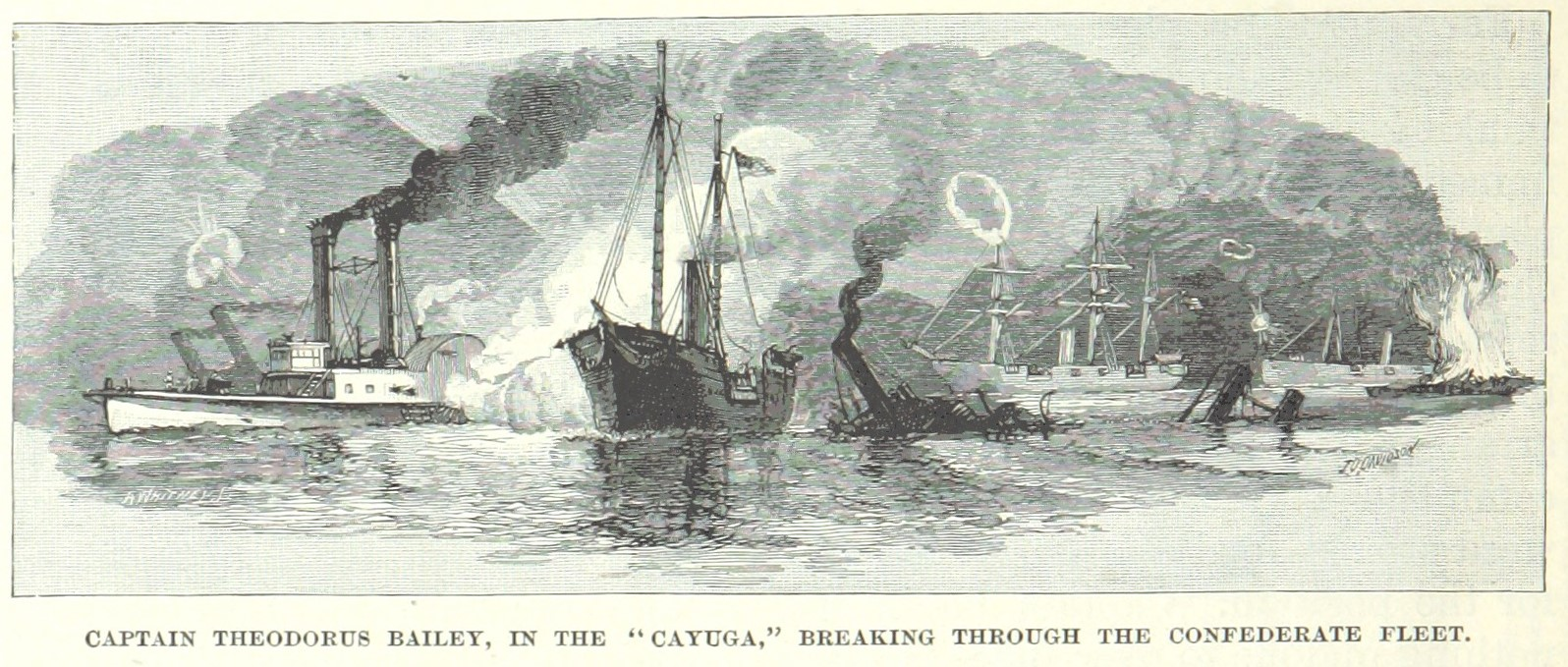 The gunboat USS Cayuga breaks through the Confederate fleet at the Battle of Forts Jackson and St. Philip.